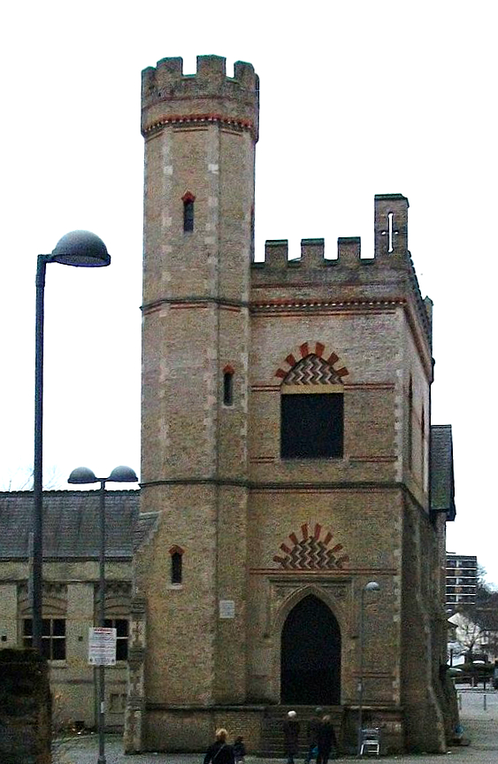 Old Croydon water pumping house now out of use. 21/12/14.